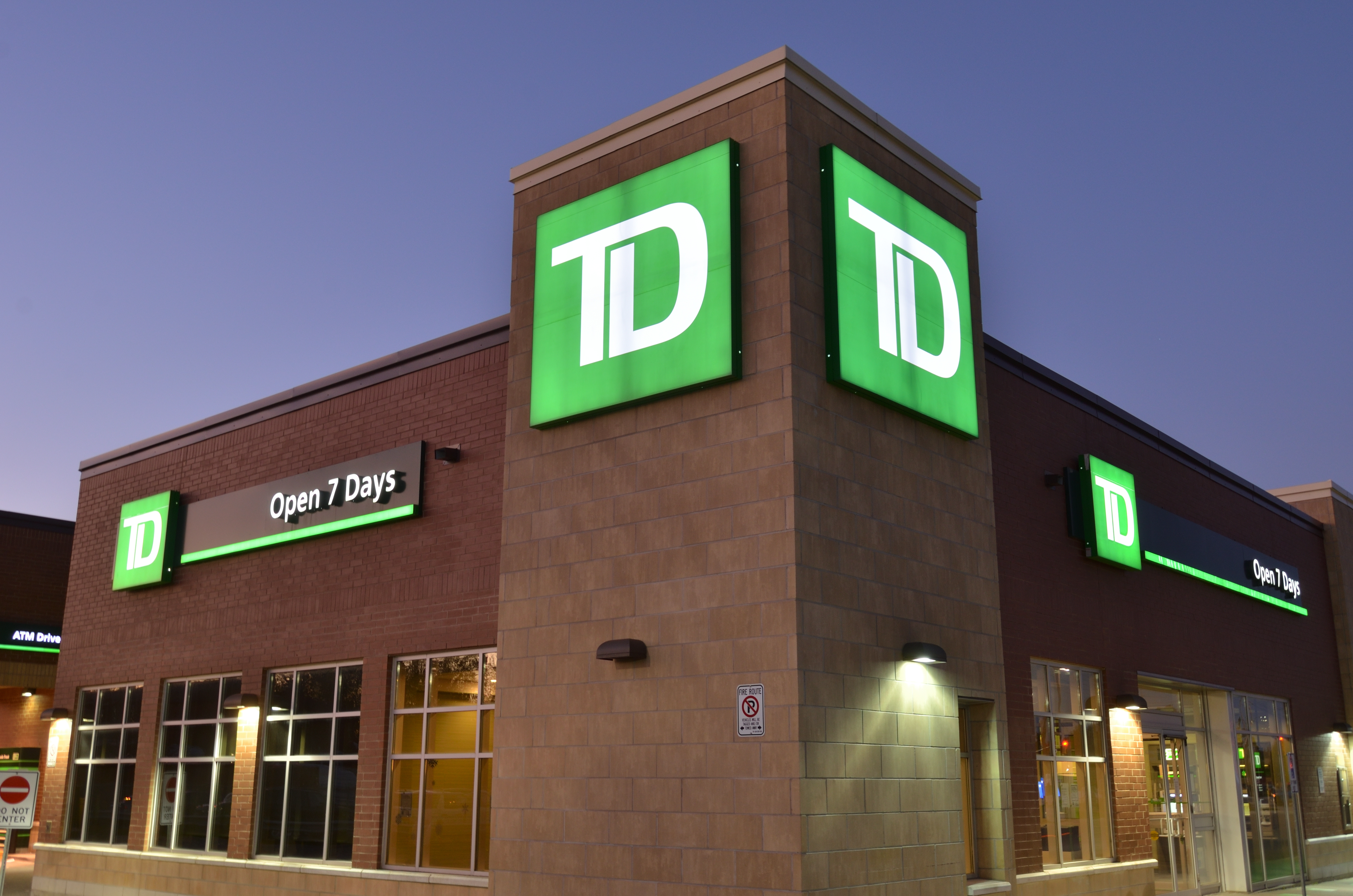 TD Canada Trust - Address: 4630 Hwy 7, Unionville, ON L3R 1M5